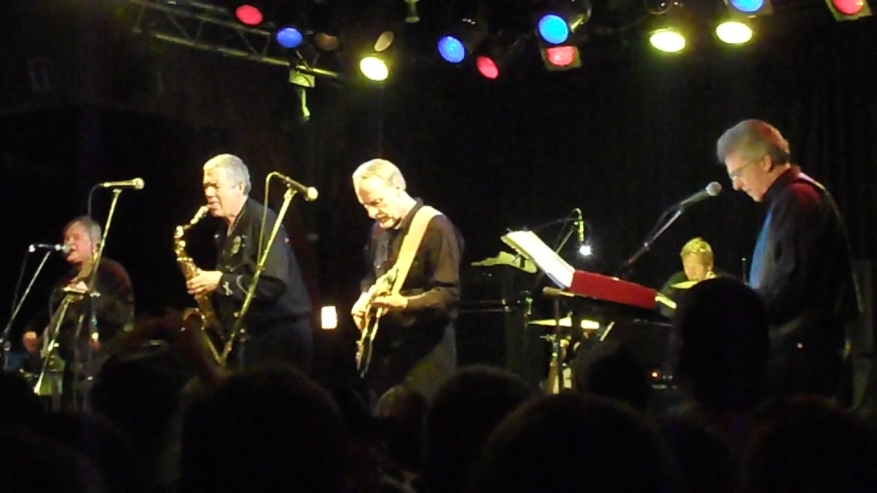 The Sonics at the Double Door in Chicago, February 27, 2014